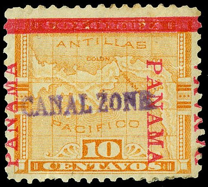 Canal Zone postage, over printed on Panama postage